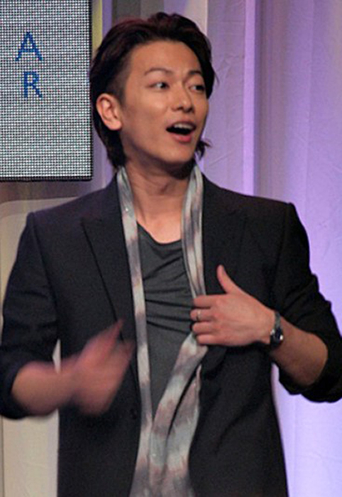 Takeru Satoh at Rurouni Kenshin press conference in Manila,Philippines in August 2014